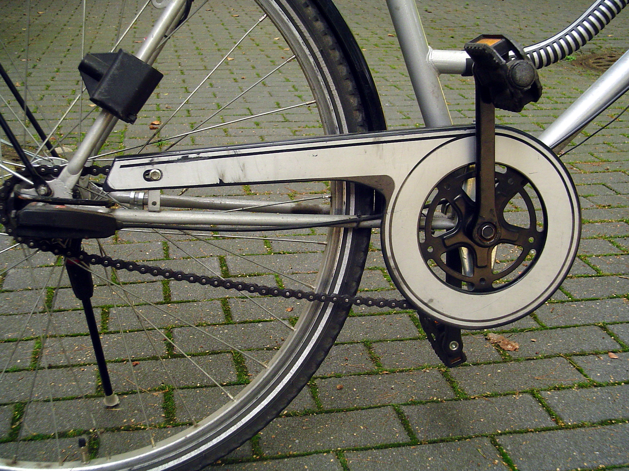 chain case, partial protection